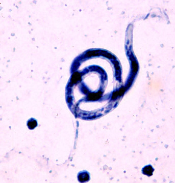 Filariasis [B. malayi microfilaria] Microfilaria of Brugia malayi. Thick blood smear, hematoxylin stain. Like Wuchereria bancrofti, this species has a sheath (slightly stained in hematoxylin). Differently from Wuchereria, the microfilariae in this species are more tightly coiled, and the nuclear column is more tightly packed, preventing the visualization of individual cells.